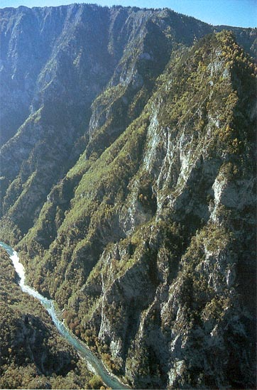 Tara River Gorge, northern Montenegro.